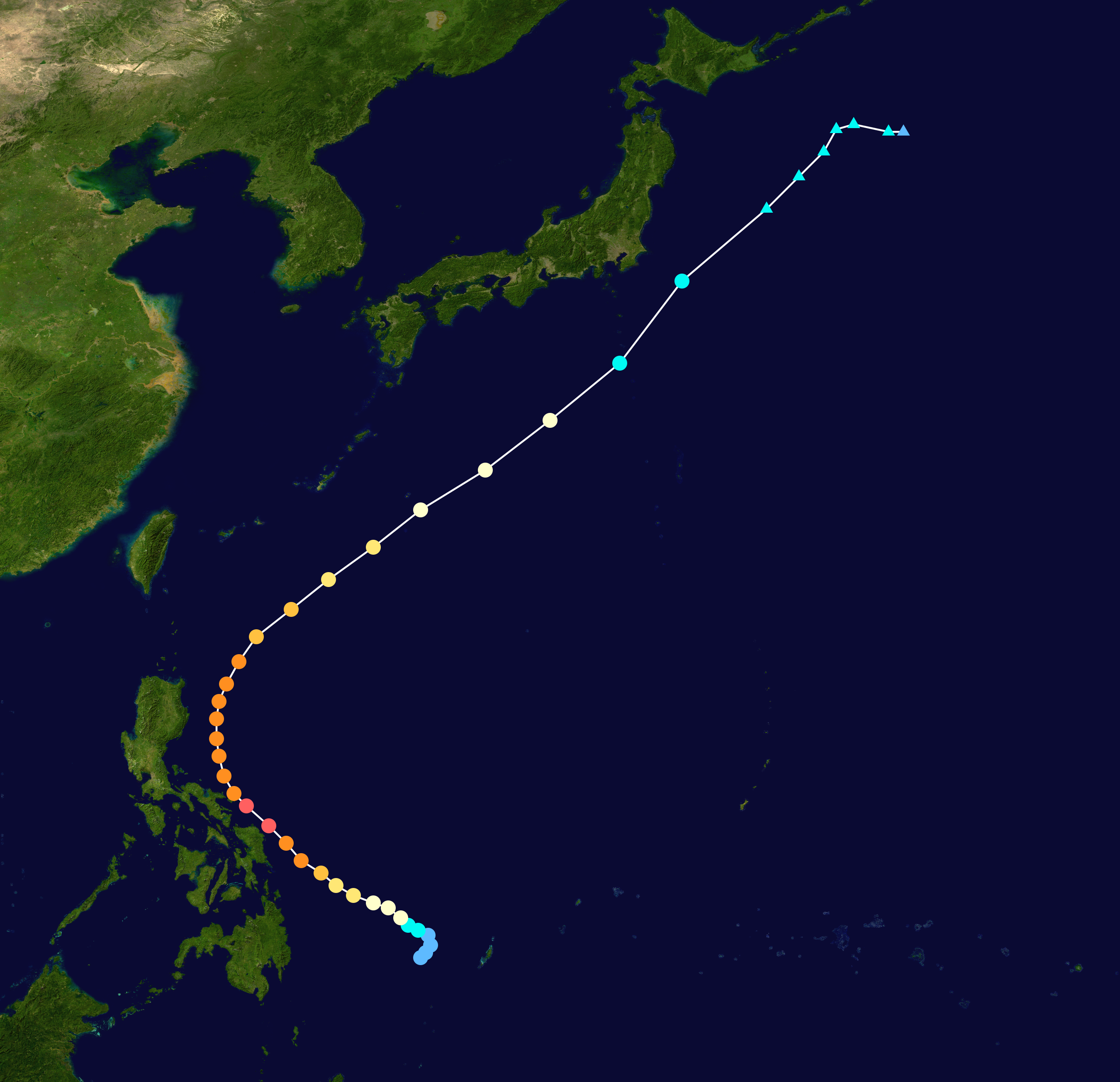 Typhoon Nida (2004) track. Uses the color scheme from the Saffir-Simpson Hurricane Scale.